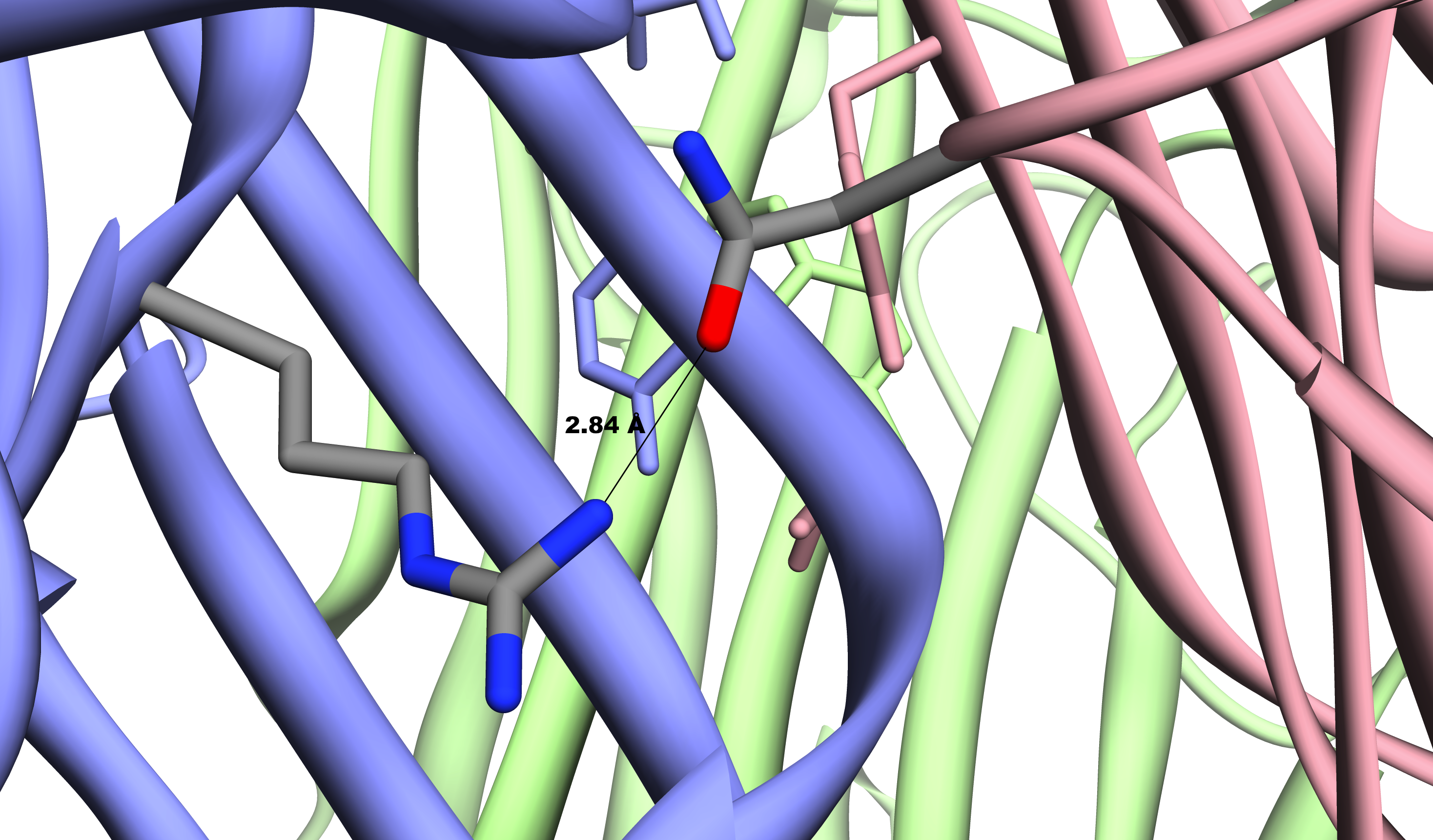 Model of hydrogen bond between Asn34 of subunit A and Arg82 of subunit C, produced by M. musculus, based on PDB structure 2TNF. The residues participating the hydrogen bond are shown in stick. The short bond length, 2.84 Angstroms, highly suggests a strong hydrogen bond that supports the tertiary structure. Baeyens, KJ et al. (1999). Generated in Chimera.